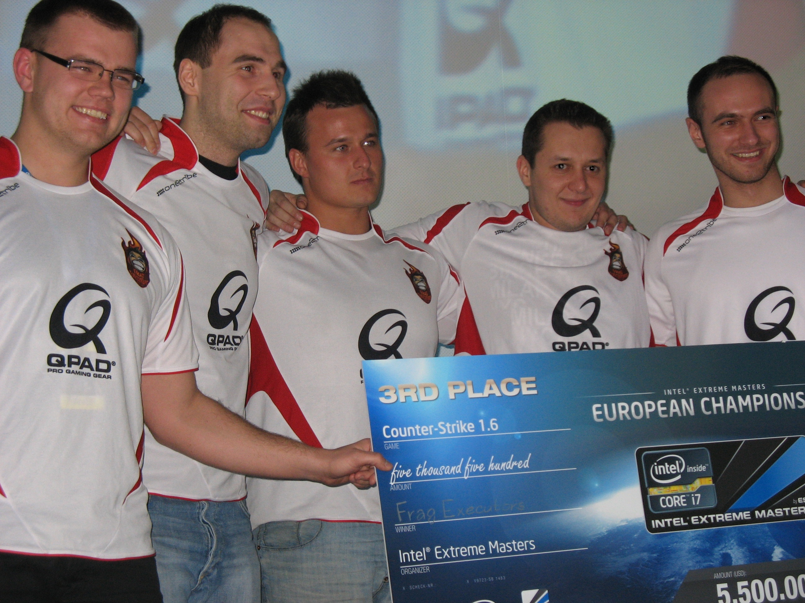 "The Golden Five" in Fx colours at IEM IV EC podium: Filip "Neo" Kubski, Wiktor "TaZ" Wojtas, Jaroslaw "pasha" Jarzabkowski, Mariusz "Loord" Cybulski, Jakub "kuben" Gurczynski